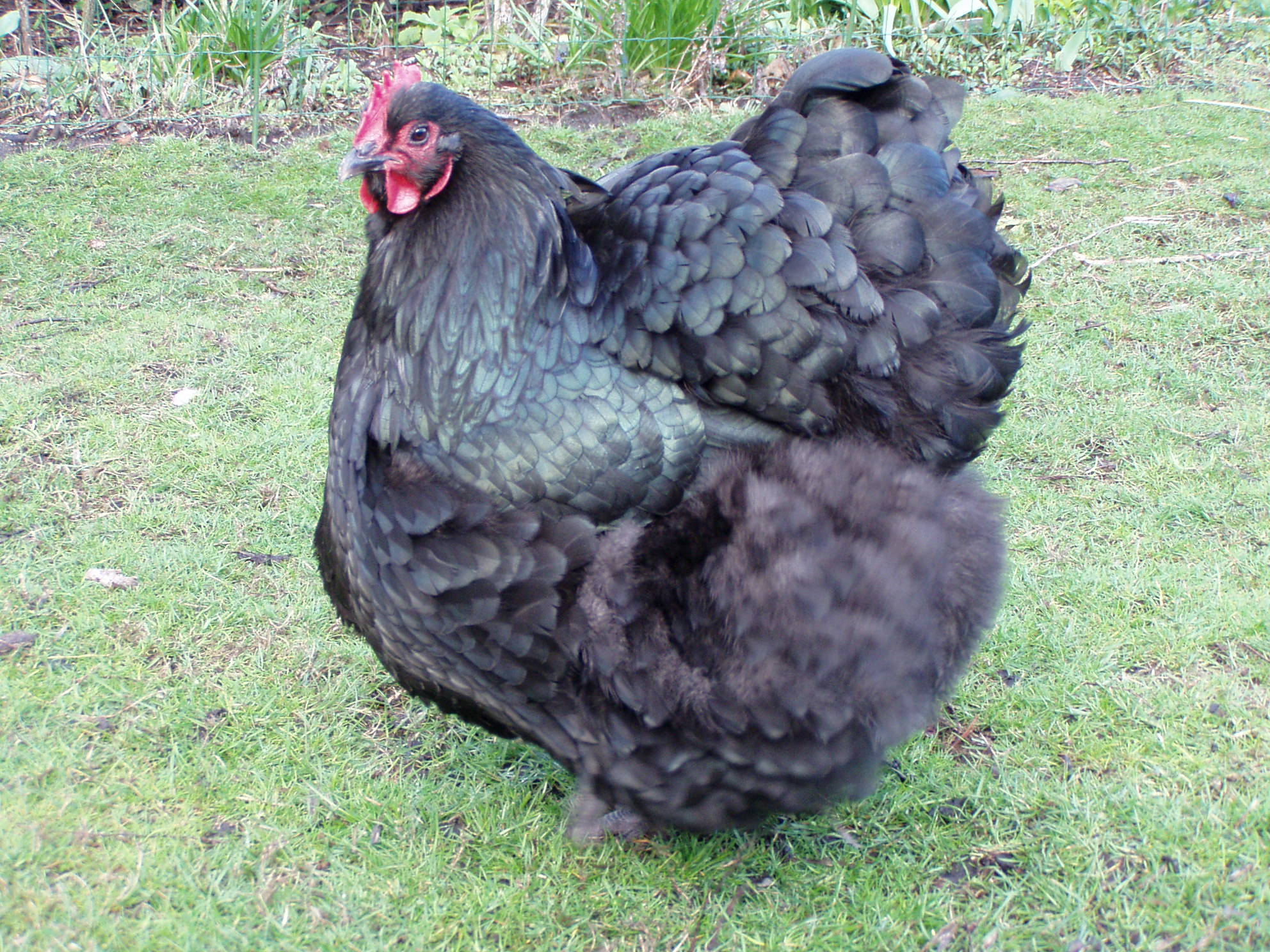 Orpington chicken. Photo taken by User:Rex.